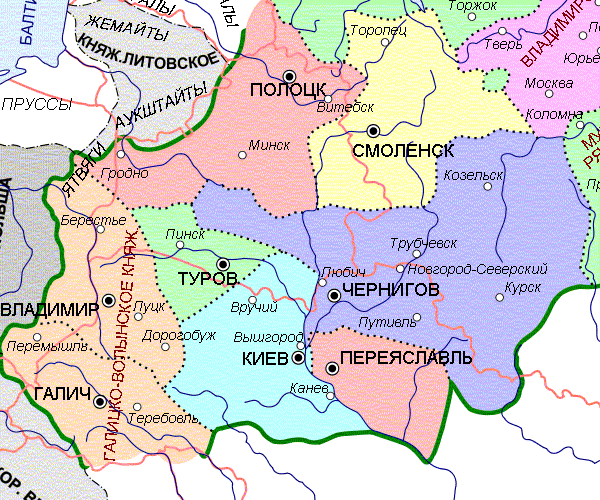 South-Western Rus' Principalities in 1237